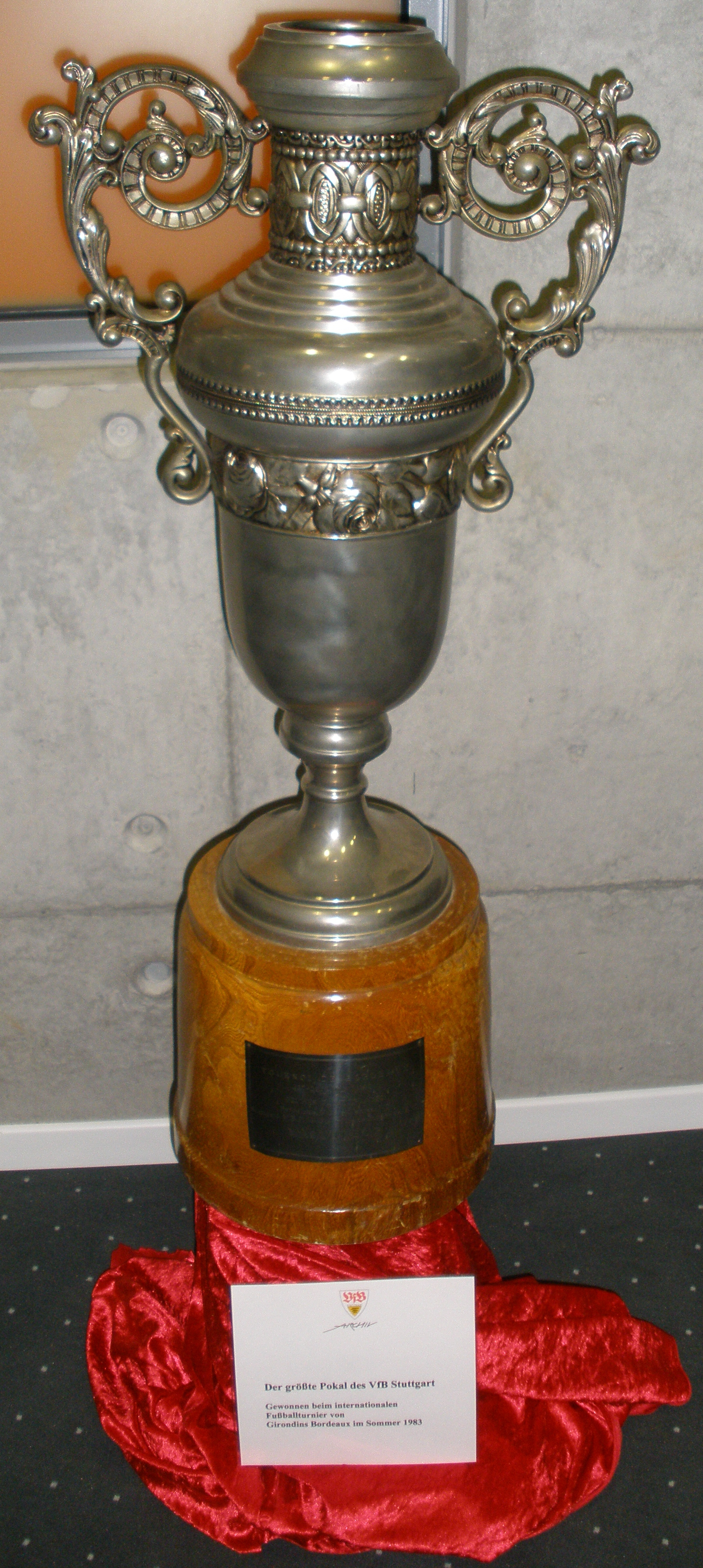 Girondins de Bordeaux Centenary tournament trophy. Won by VfB Stuttgart in 1983.